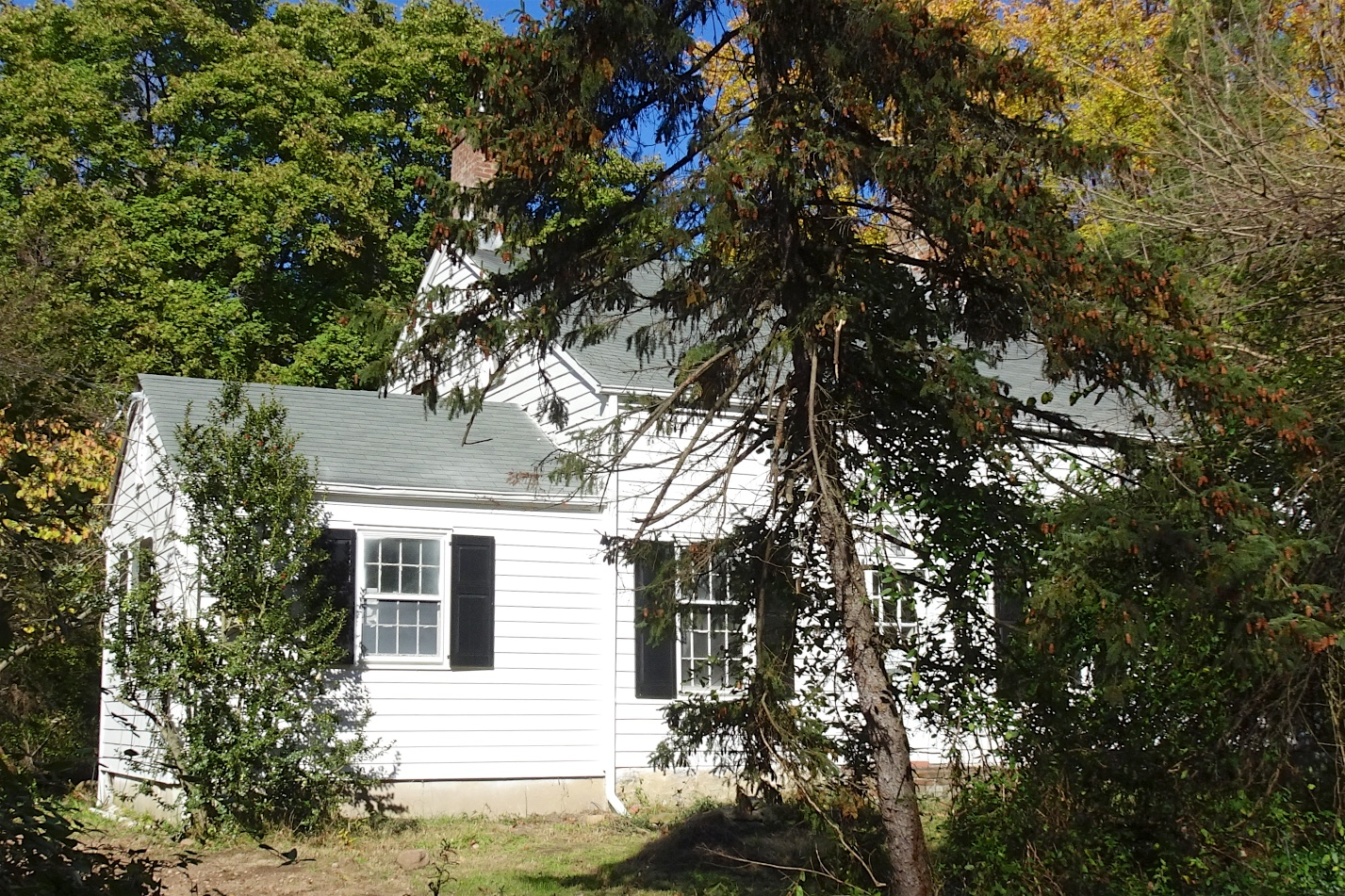 House of John Honeyman located at 1008 Canal Road in Griggstown, New Jersey. Contributing property.